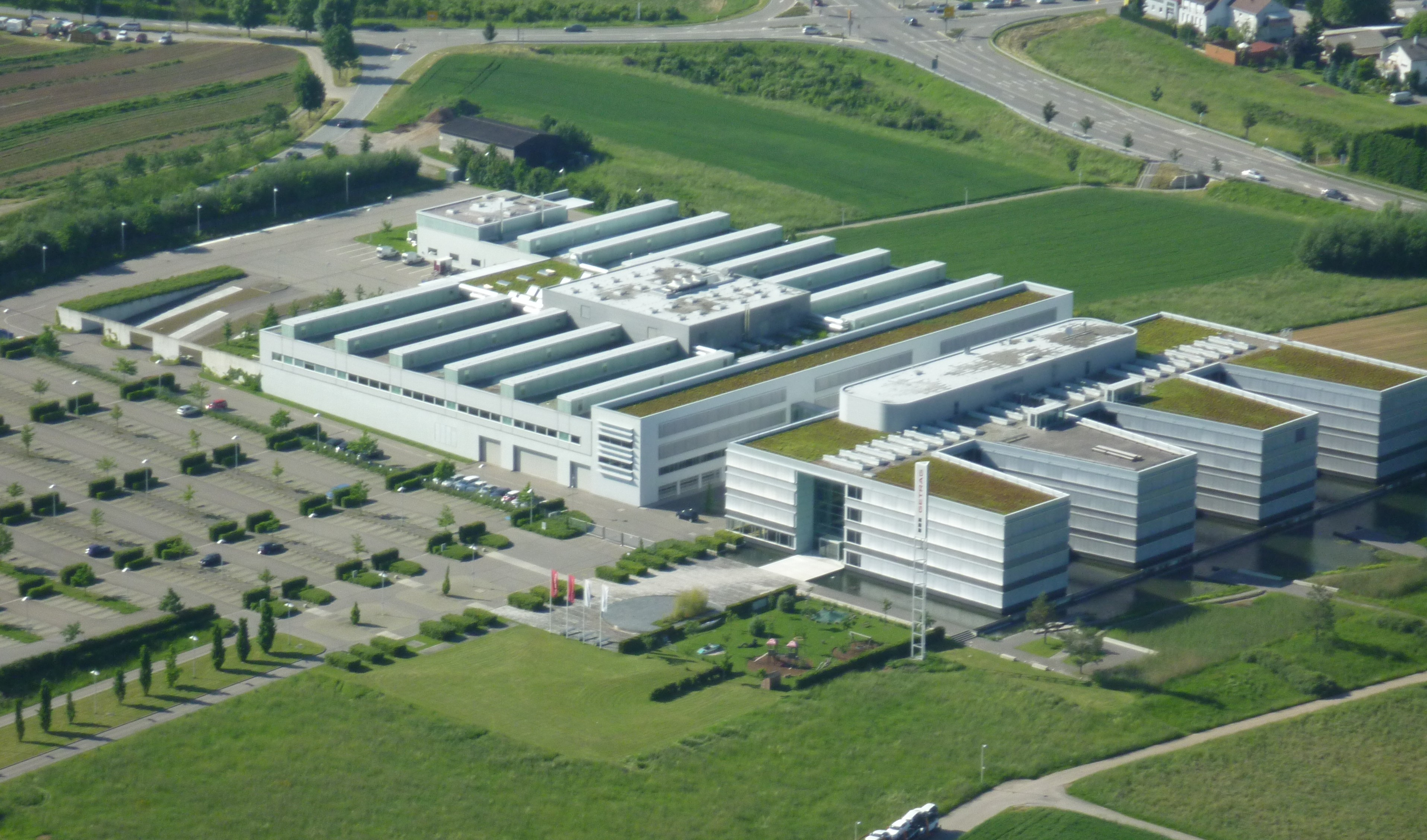 Aerial view of Getrag in Untergruppenbach, Germany